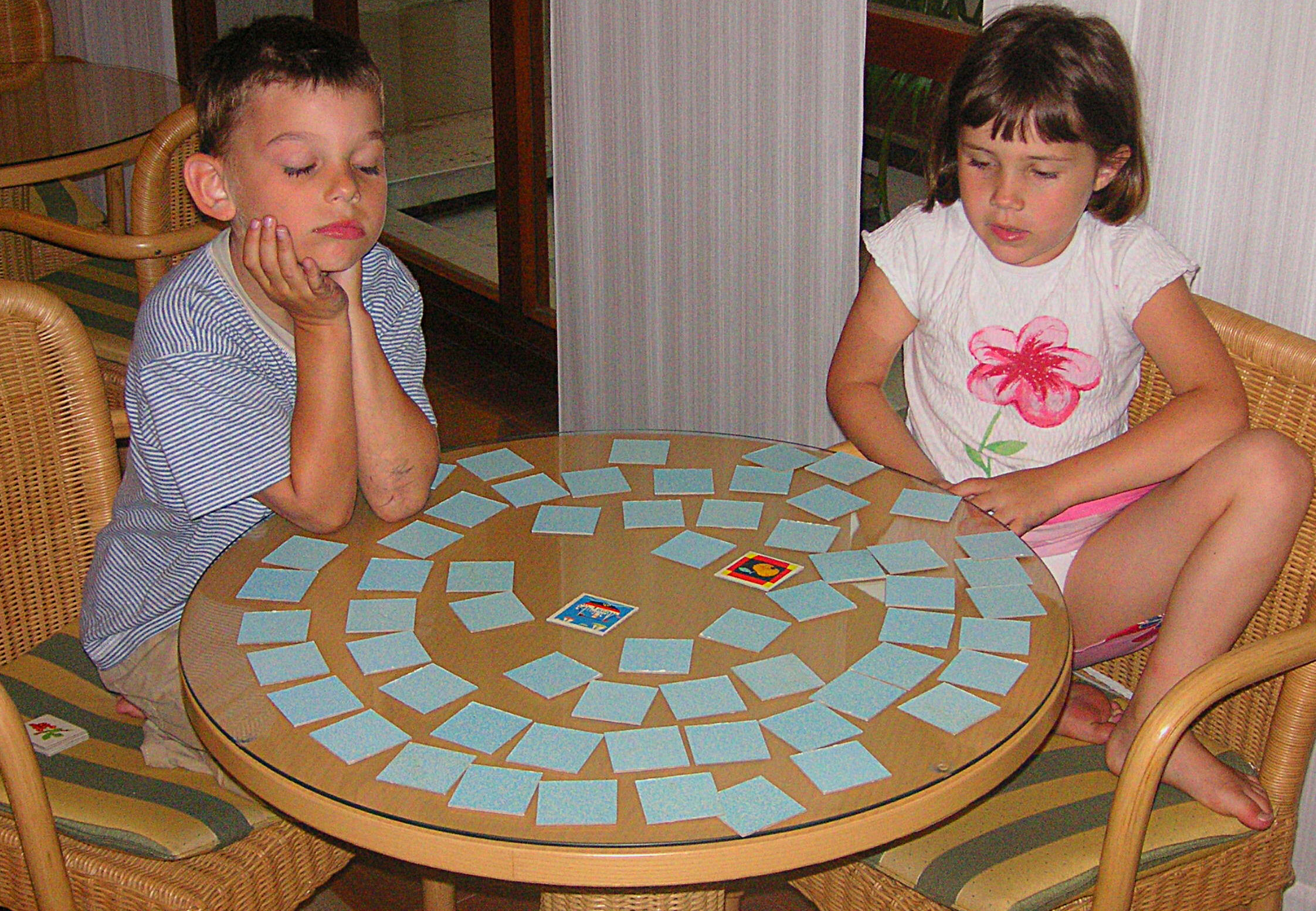 Memory game